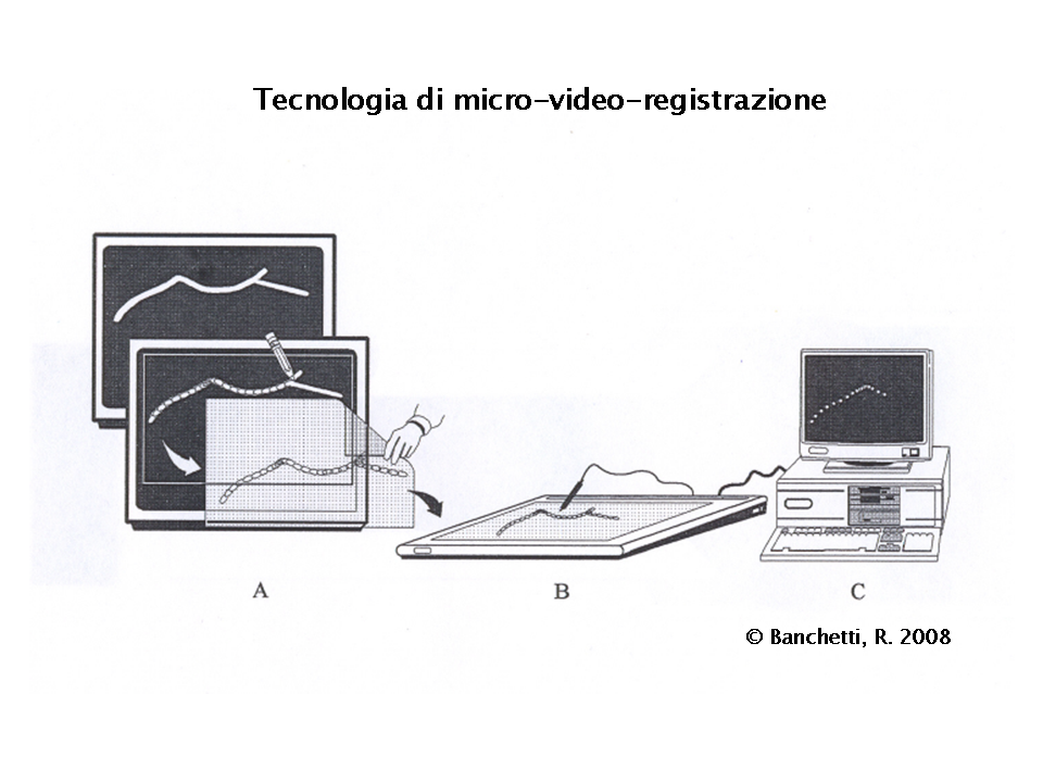 Videorecording in Chemotaxis assays